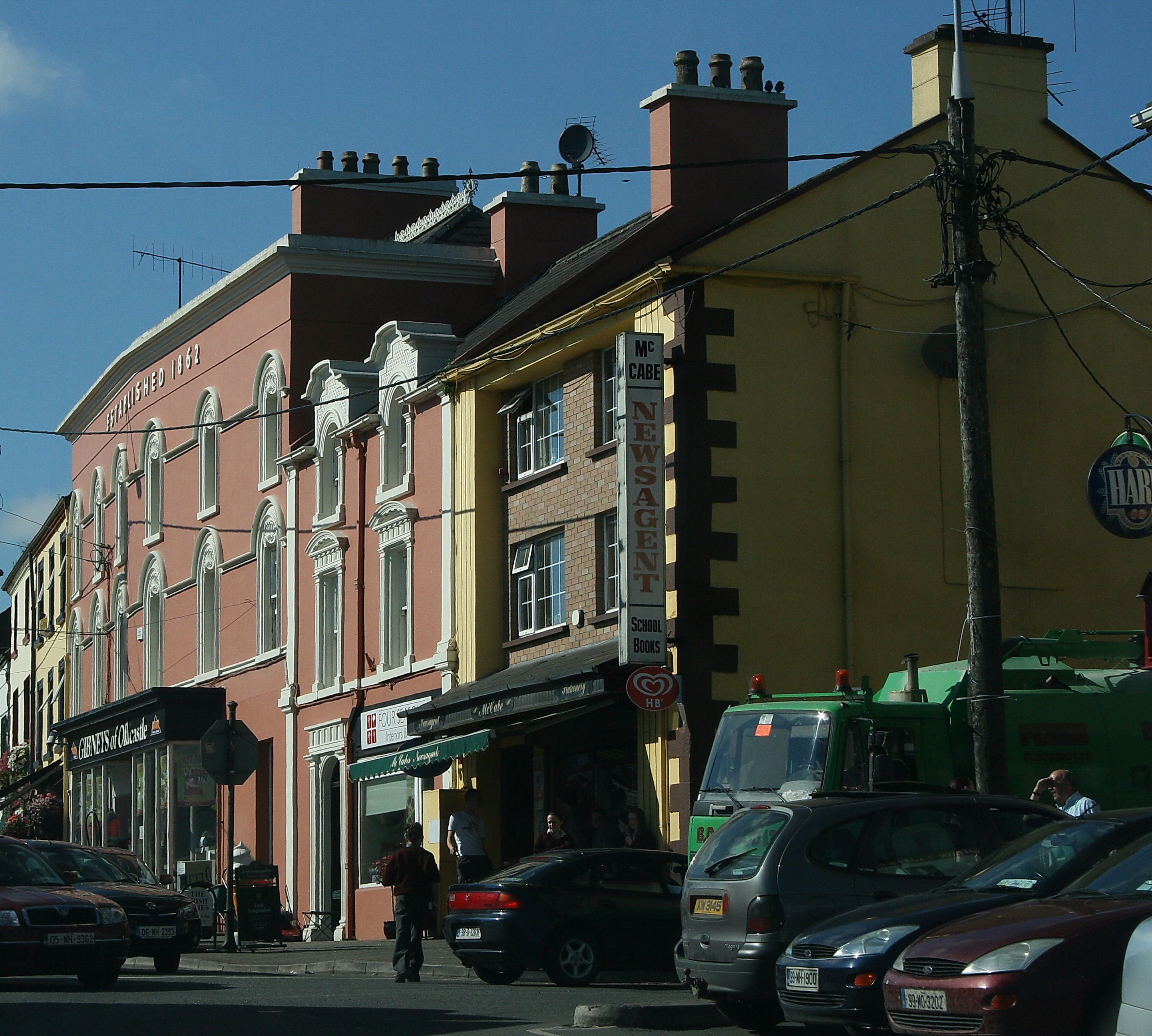 Oldcastle, County Meath